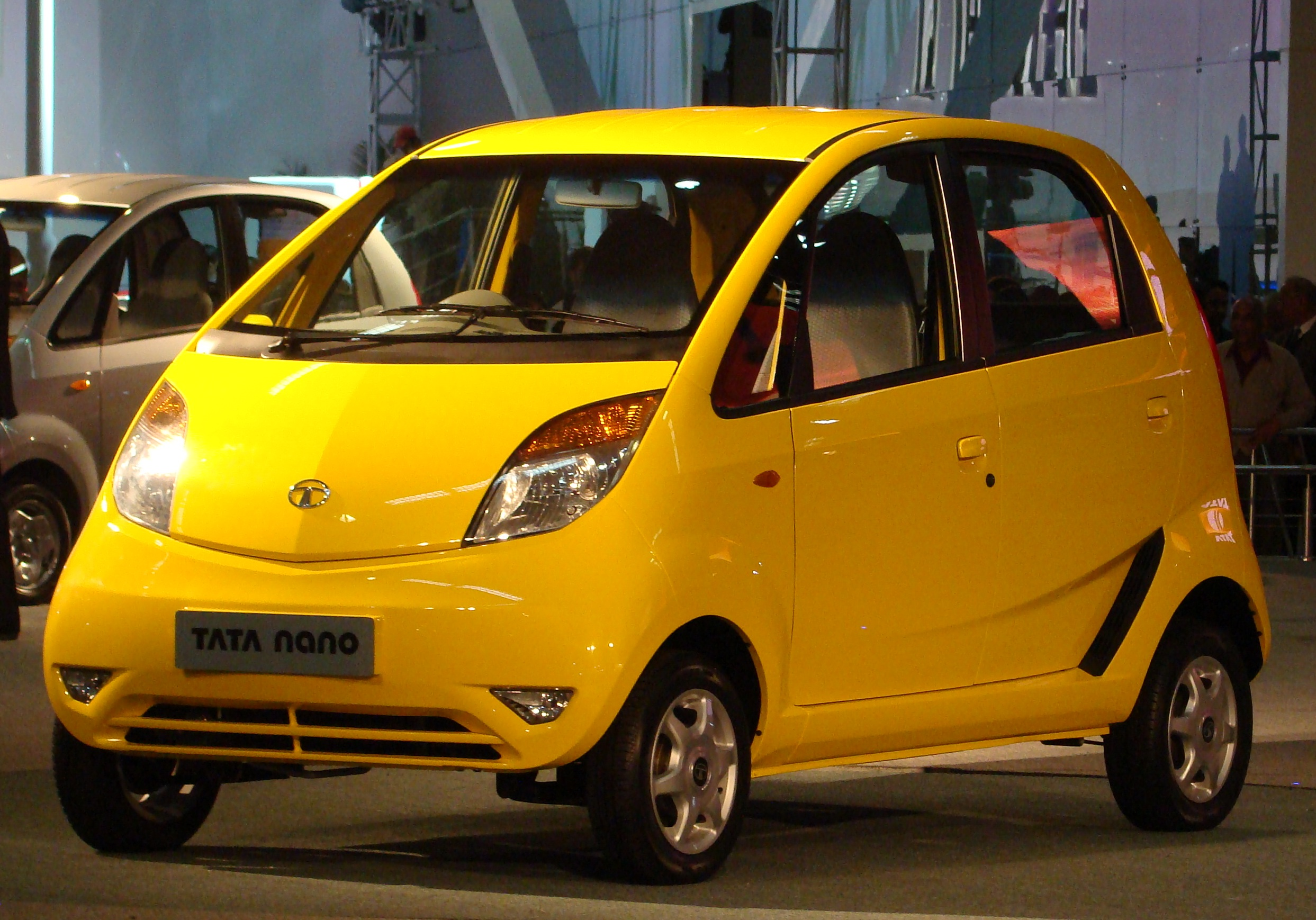 by Sharad Baliyan Uploaded to wiki by user:nikkul Photograph By Sandeep Rathod (SanDev)